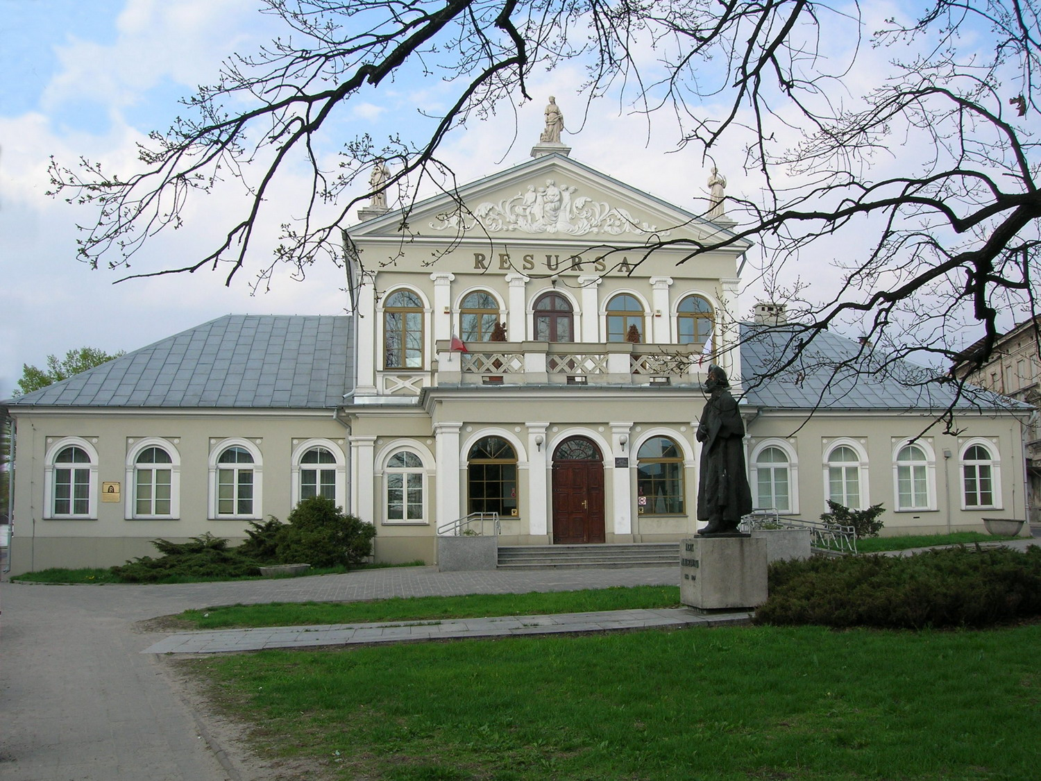 Radom - Citizens Club - Resursa Obywatelska.